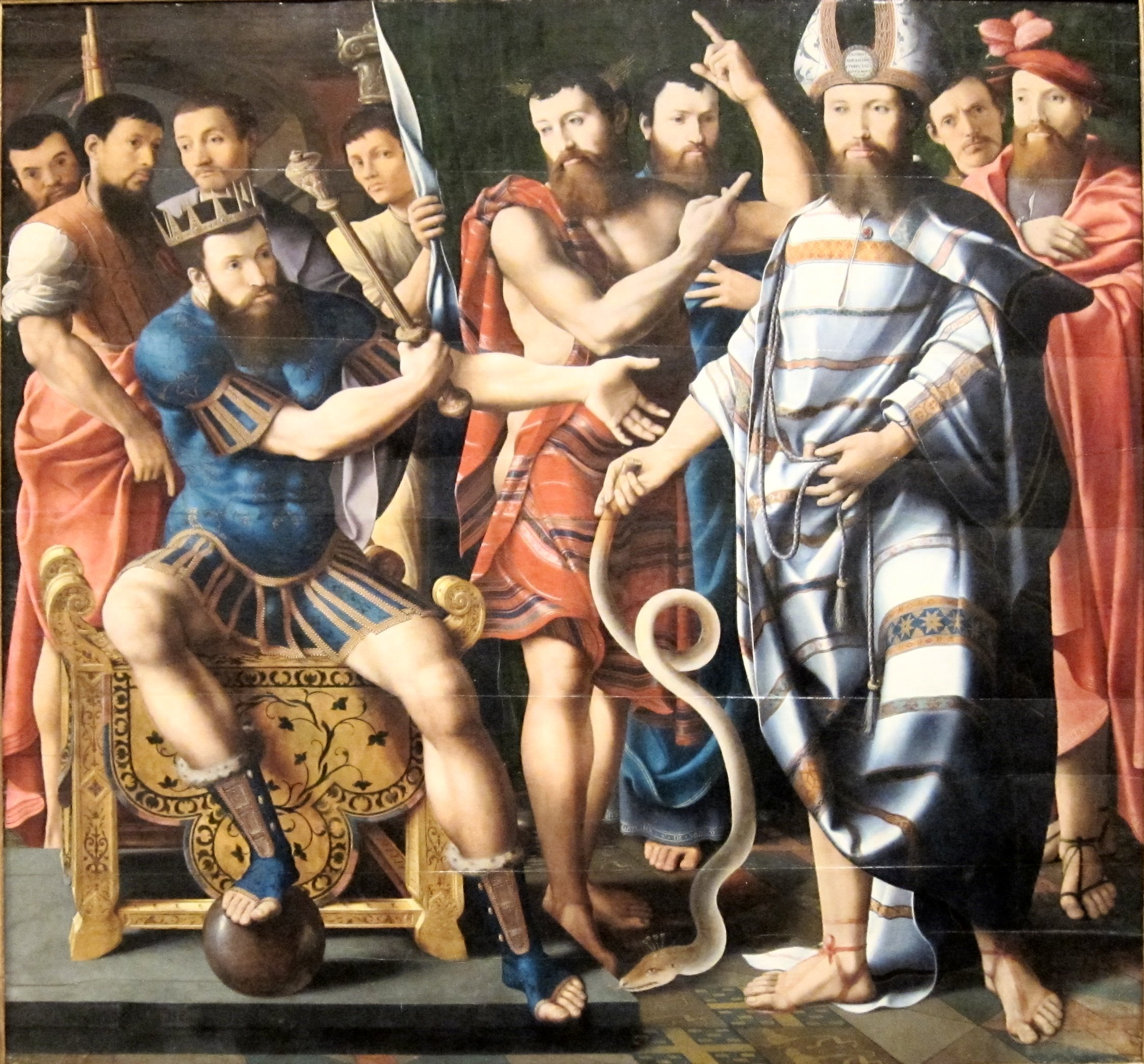 Moses and Aaron before Pharaoh: An Allegory of the Dinteville Family, oil on wood painting by the Master of the Dinteville Family, mid 16th century, Metropolitan Museum of Art